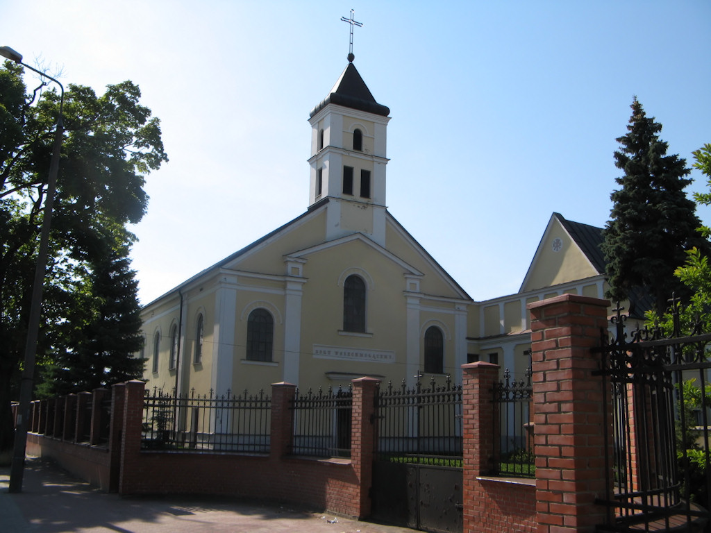 Church and monastery of Benedict Sisters in Łomża